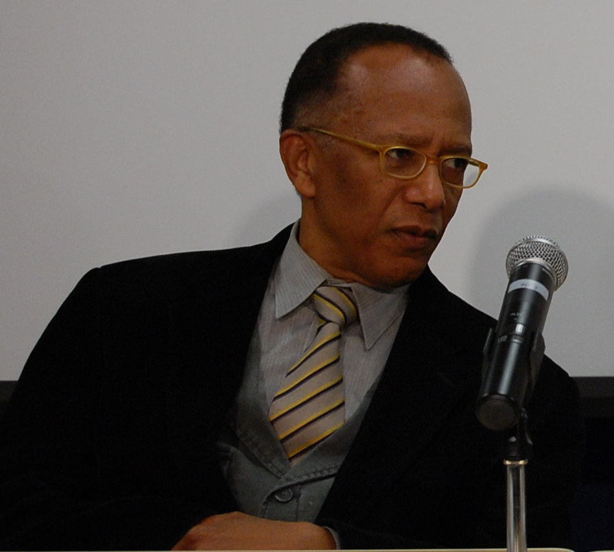 Orlando Patterson speaks at the New America Foundation's "Inequality and the Great Recession" event